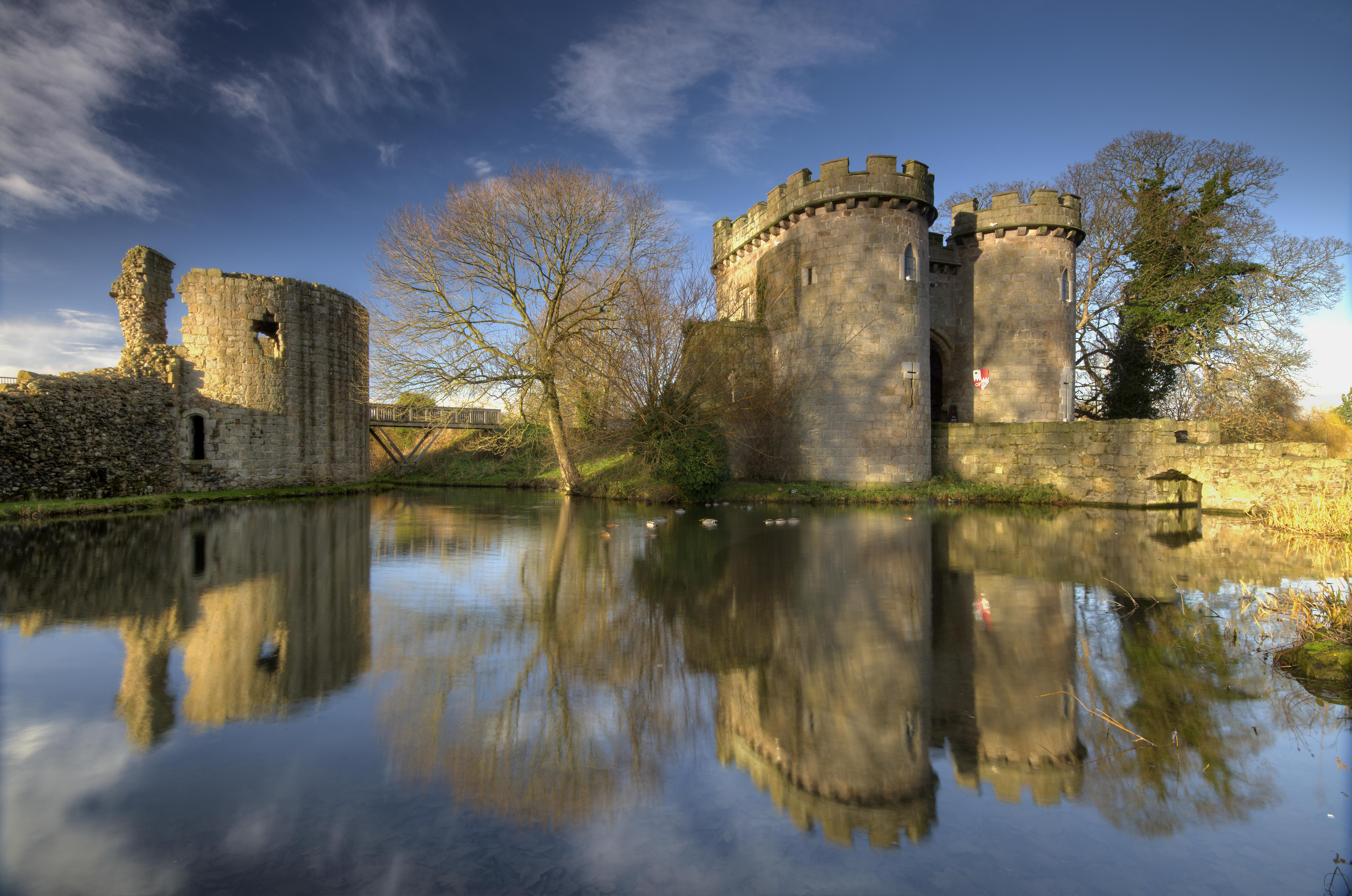 Whittington Castle Reflection